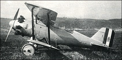 Italian Piaggio P.11 aerobatic trainer aircraft